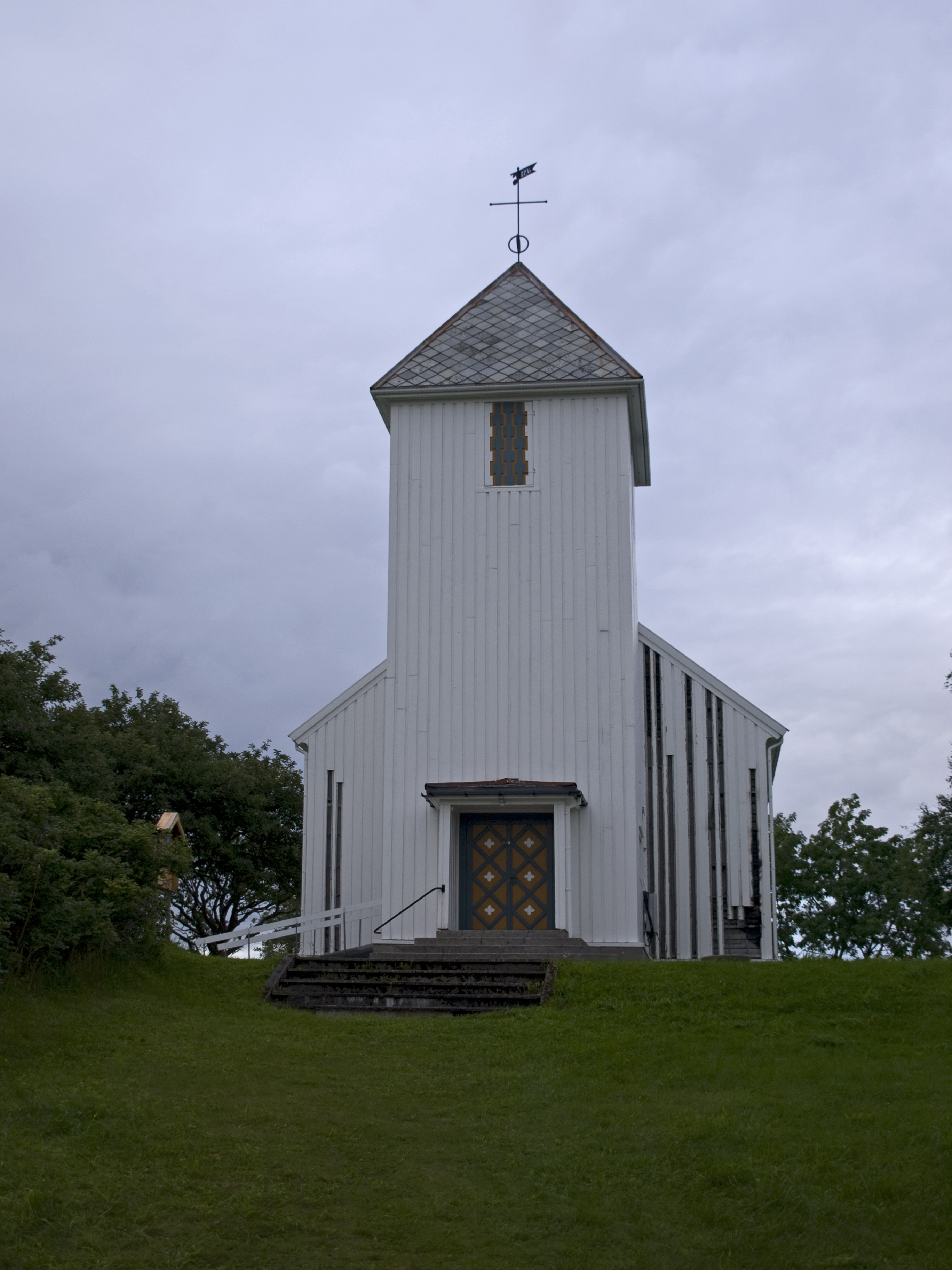 Rorvik Church in 2013, after a fire still not fully restored (visible as missing parts of the facade)